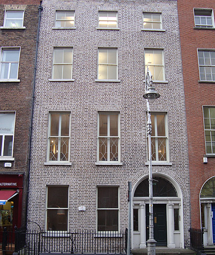 Photograph of house built by Michael Stapleton, 9 Harcourt Street, Dublin, Ireland.